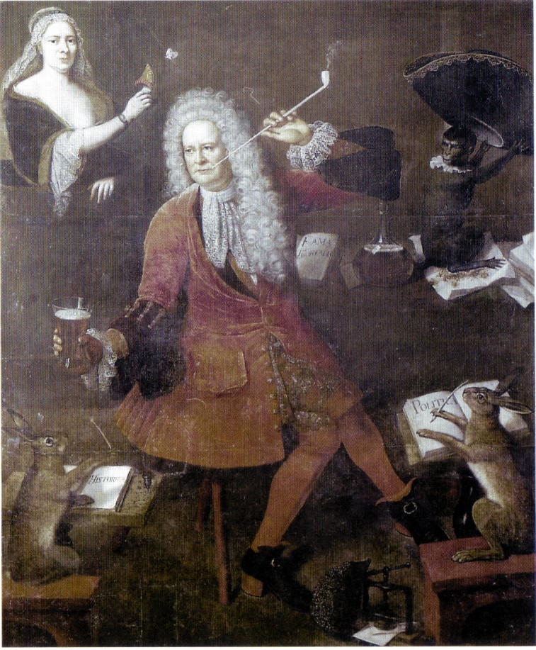 Double-portrait of Jacob Paul von Gundling and Anne de Larray